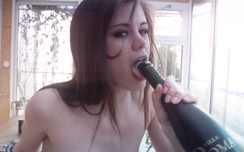 Commercial of Villa Roma in Munich featuring Little Caprice